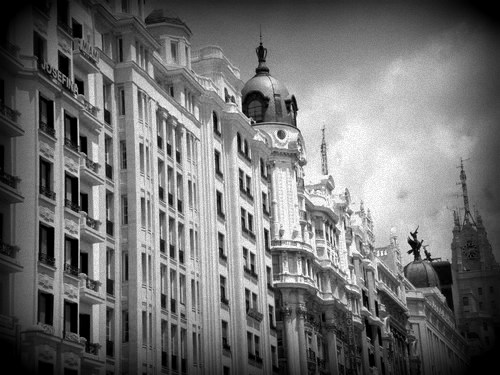 A Black and White Photo of the the Gran Vía in Madrid Spain below text is from the English wikipedia Gran Vía (literally "Great Way") is an ornate and upscale shopping street located in central Madrid.Now, the street is known as the Spanish Broadway, and is one of the streets with more nightlife in Europe. It is known as the street that never sleeps. It leads from Calle de Alcalá, close to Plaza de Cibeles, to Plaza de España. The lively street is one of the city's most important shopping areas, with a large number of hotels and large movie theaters; it is also noted for the grand architecture prevalent among many of its buildings. Now, most of the theaters are being replaced by shopping malls. It is considered a showcase of early 20th century architecture, with patterns ranging from Vienna Secession style, Plateresque, Neo-Mudéjar, Art Deco and others. In the mid 19th century, Madrid's urban planners decided that a new thoroughfare had to be created, connecting the Calle de Alcalá with the Plaza de España. The project required many buildings in the center of the city to be demolished, earning it the name of 'an axe blow on the map'. Decades after the first plans were made, construction still hadn't started and the media ridiculed the project, cynically calling it the 'Gran Vía' or 'Great Road'. Finally in 1904 it was approved and construction started a couple of years later. The last part of the street was completed in 1929.